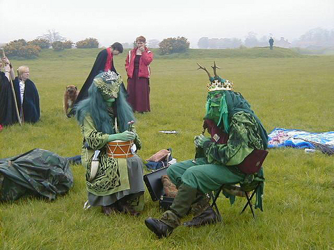 I took this photograph on 01/05/2005.